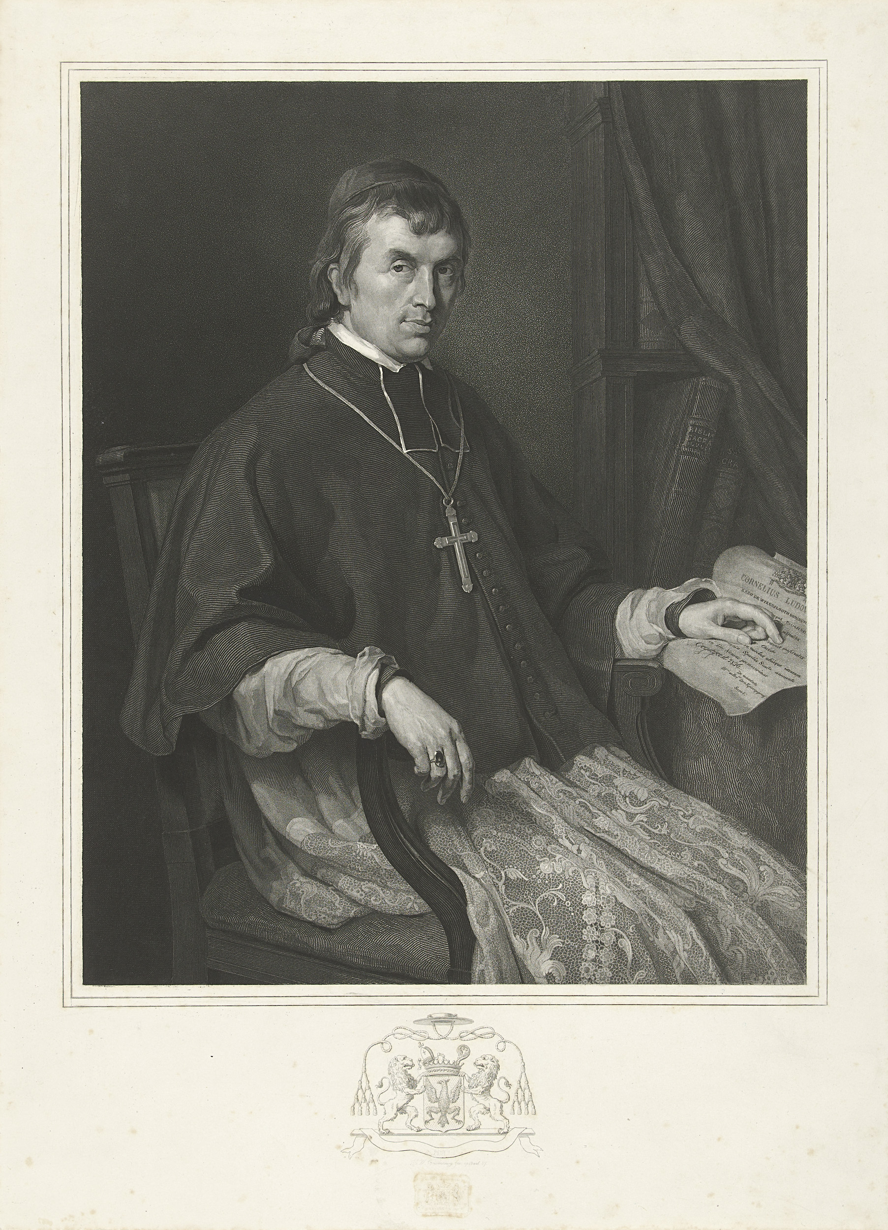 Cornelius Ludovicus de Wijkerslooth by Charles Van Beveren (1837)